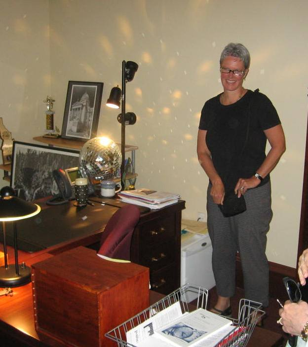 The disco ball in the office of Idaho State Senator Nicole LeFavour.